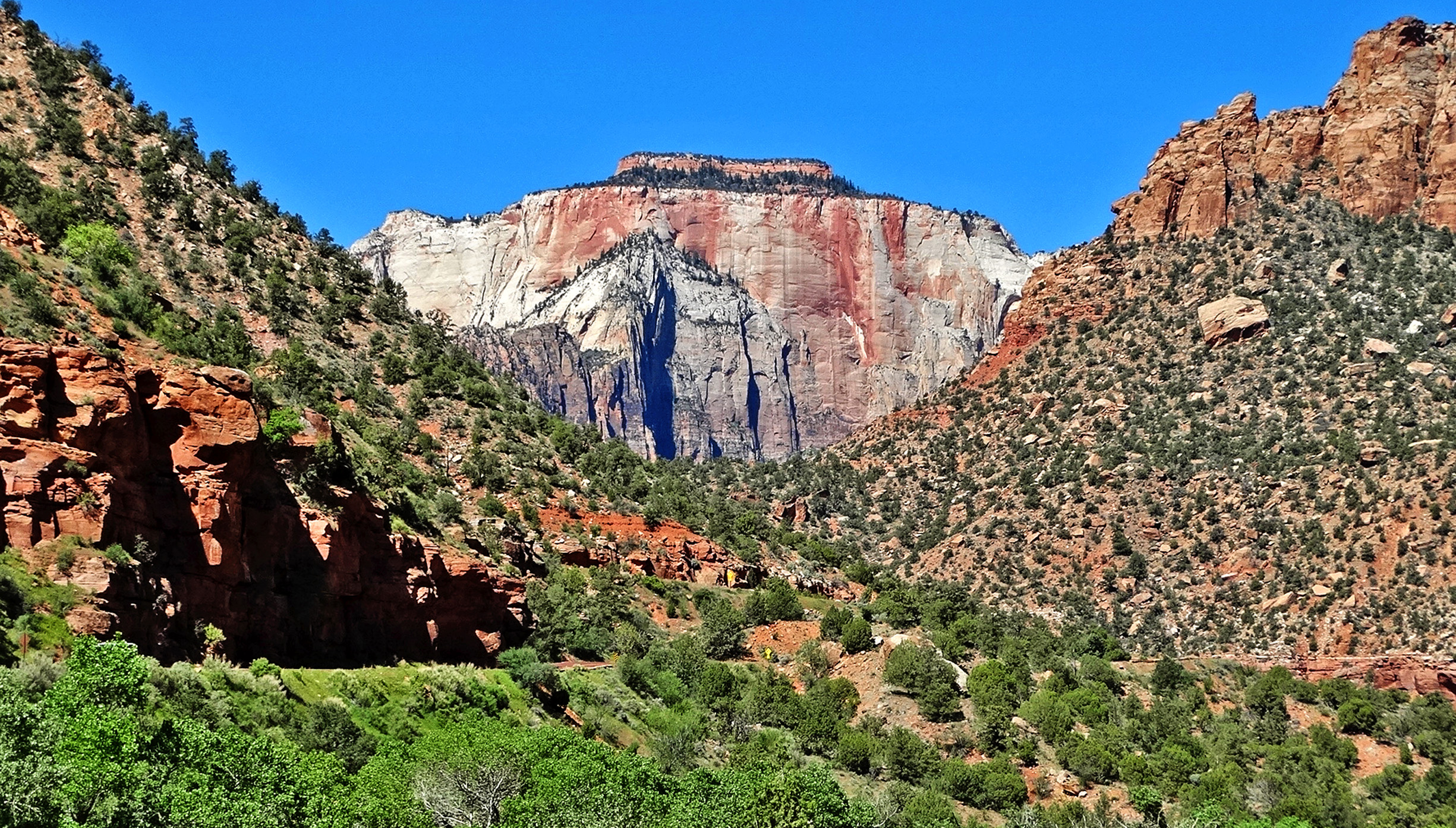 (1 in a multiple picture album) This shot is from a pull out on Utah Hwy 9 coming down from the east end of Zion National Park. The huge formation in the center is called West Temple.